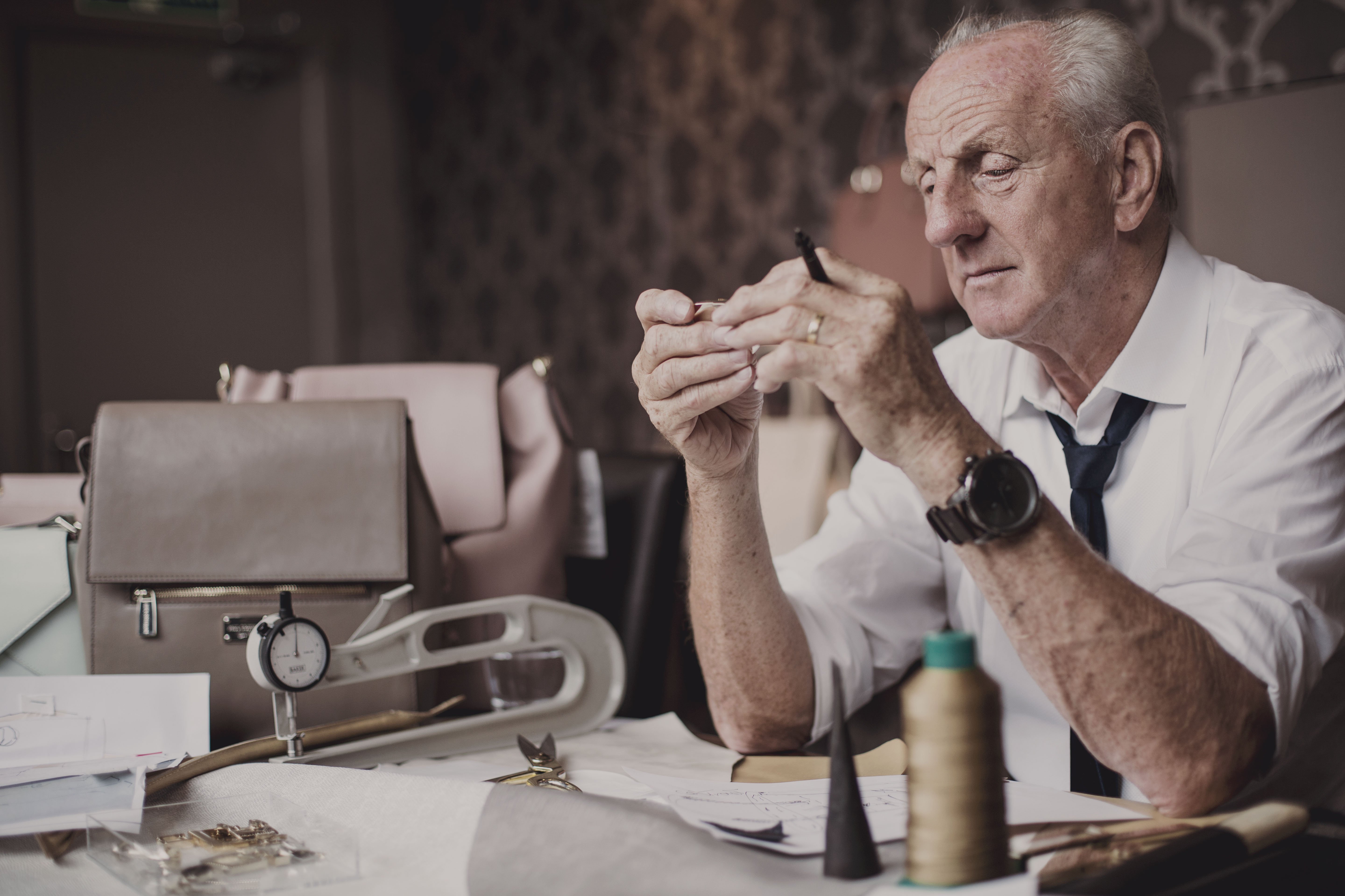 Paul Costelloe, Fashion Designer